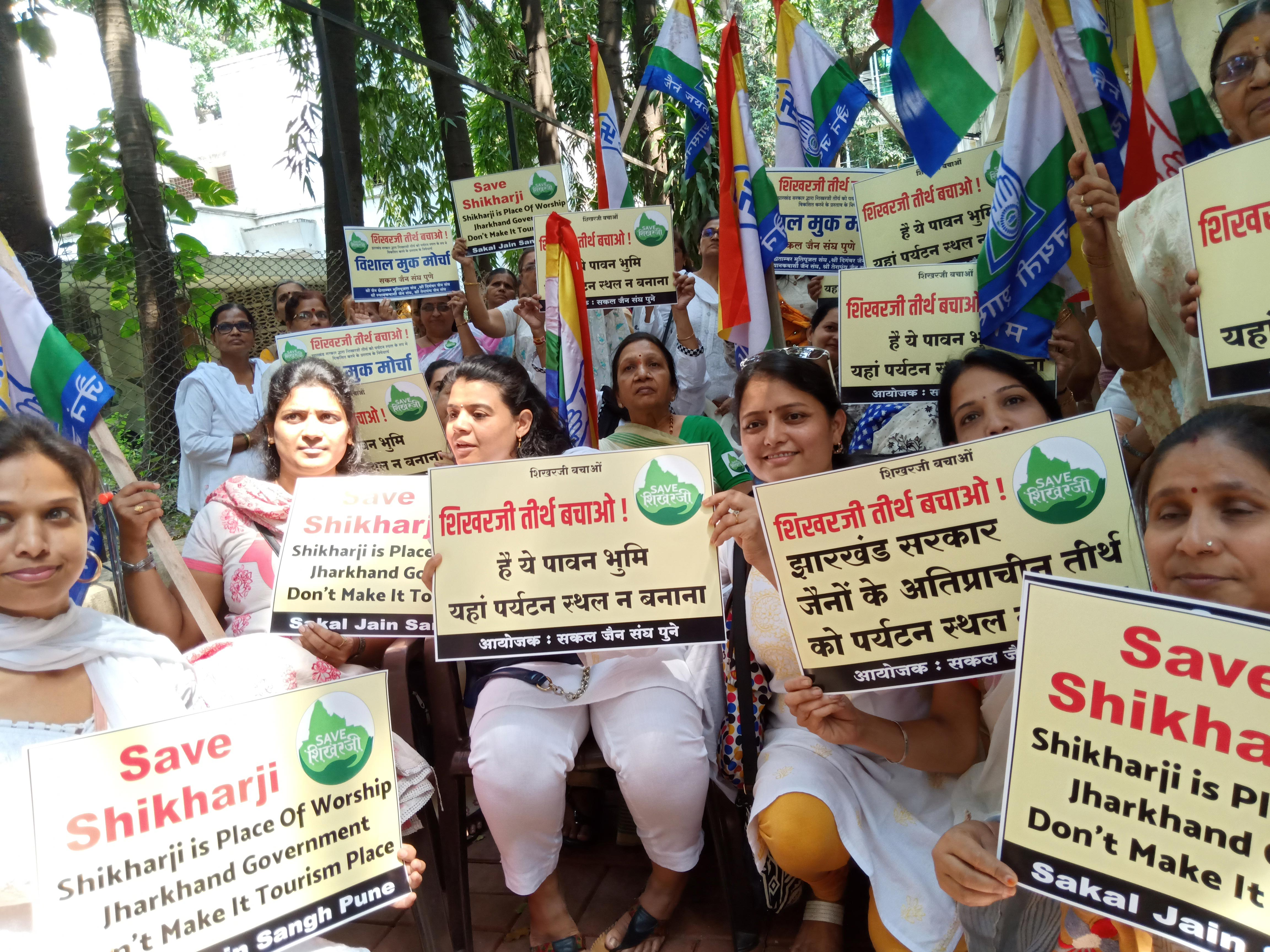 'Save Shikharji' is a movement being undertaken by all sects of Jains to protect sanctity of Shikharji Hill. Jain community members across the country have come together over the impertinent attempt to commercially exploit the sanctity of Shikharji hill (also known as Parasnath hill).